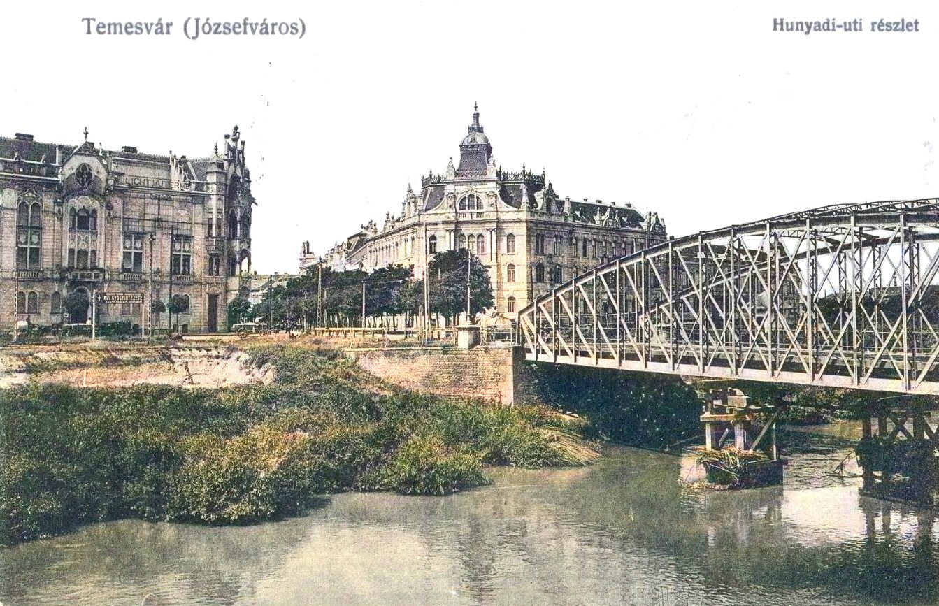 The Old Iosefin Quarter, entrance, before 1910